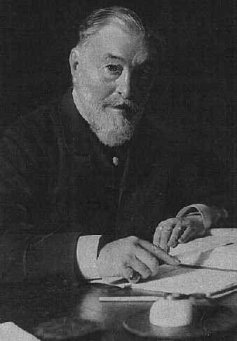 Frederic Harrison, from the portrait collection from the University of Texas at Austin.